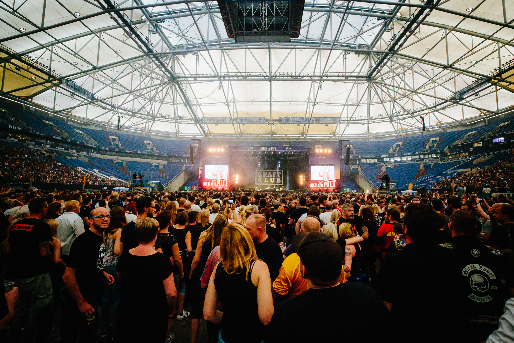 Kraftklub at Rock im Pott 2017